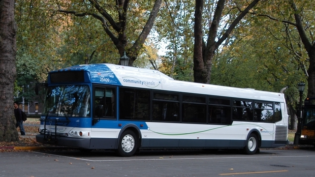 Community Transit bus 25409